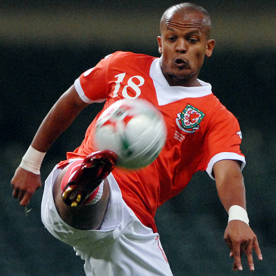 Footballer Robert Earnshaw in action for Wales against Germany, EURO 2008 football (soccer) Qualifying match